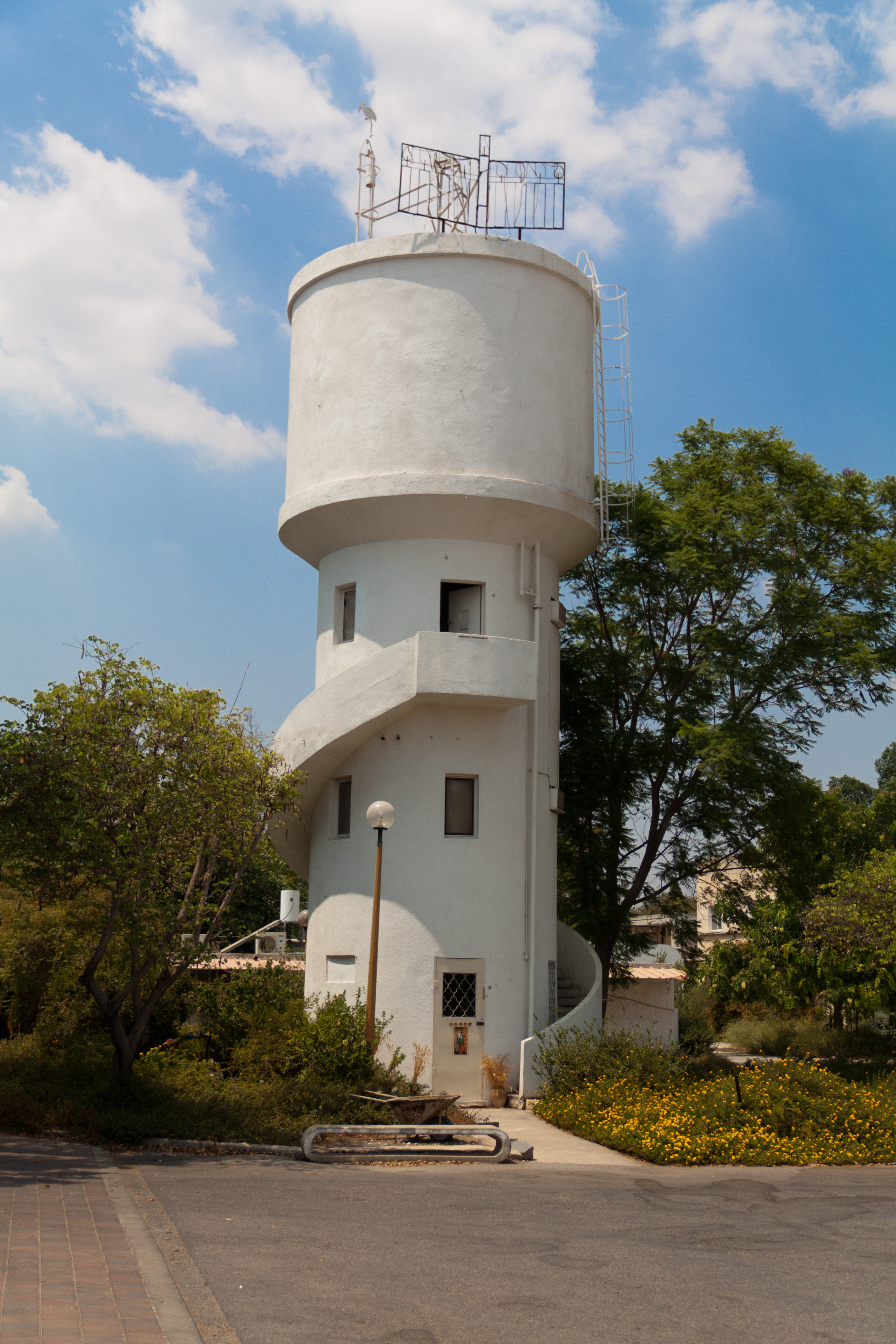 Afikim's water tower